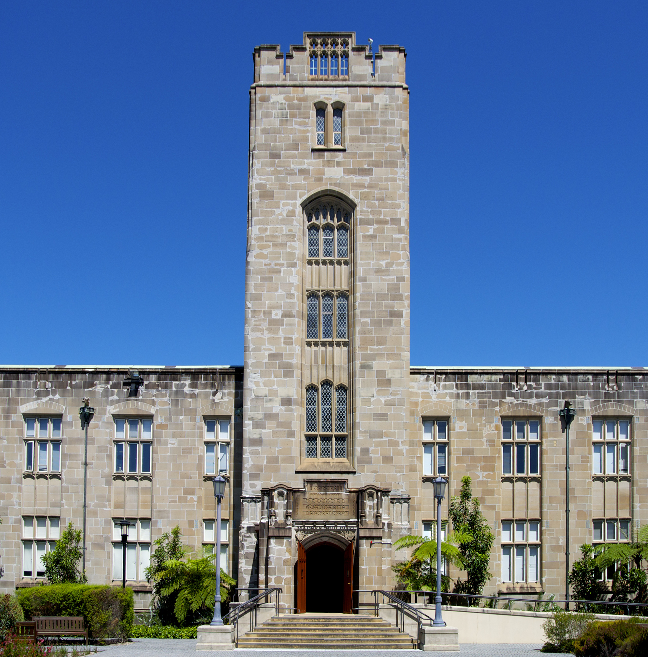 Housing the School for Geosciences